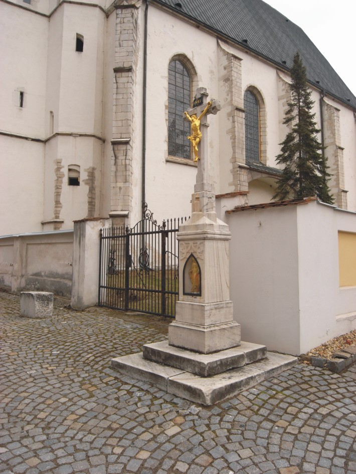 Doubravník, church and bildstock (Pernštejn marble)